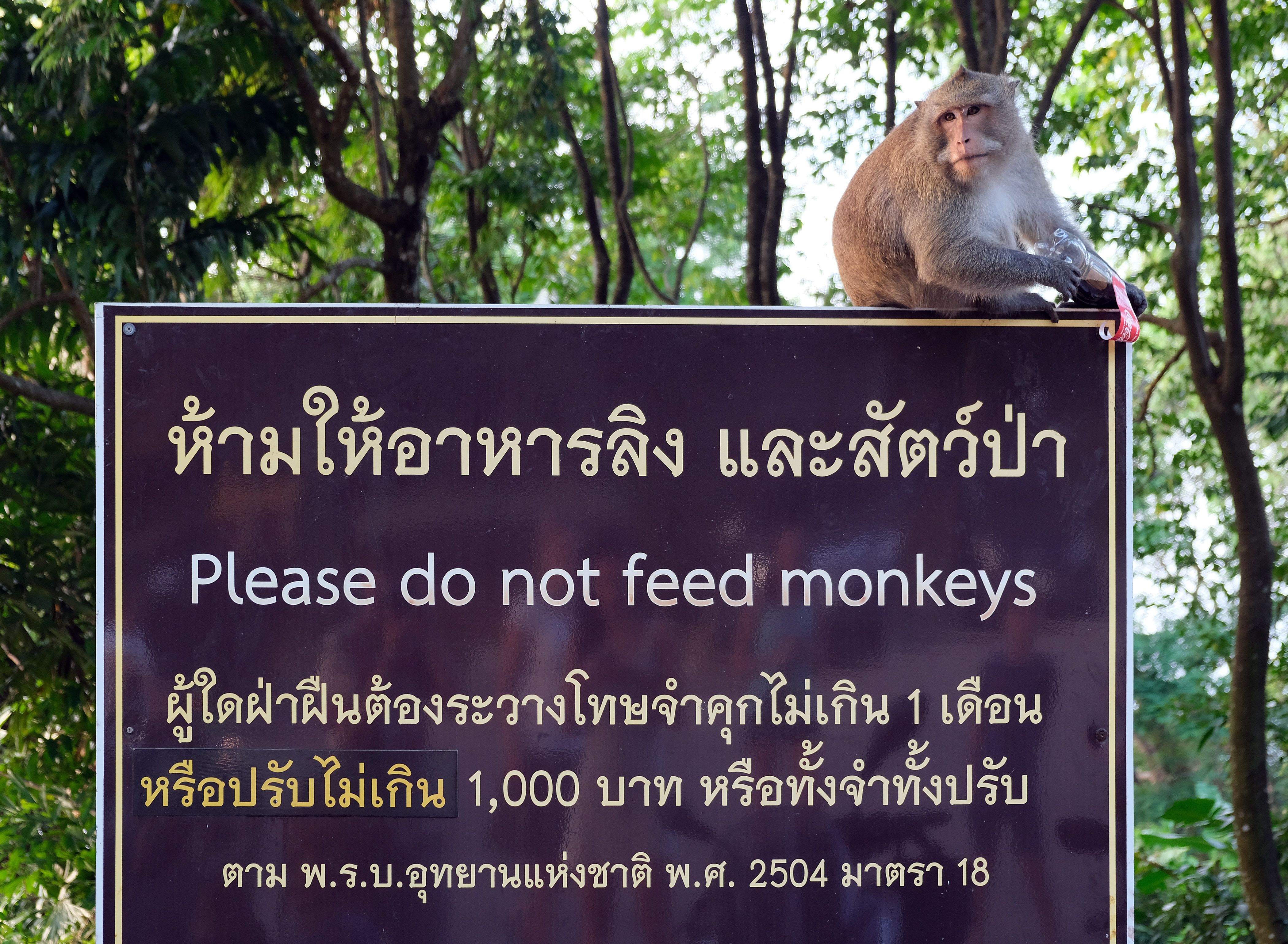 "Please do not feed monkeys" sign in Kai Bae viewpoint, Koh Chang.